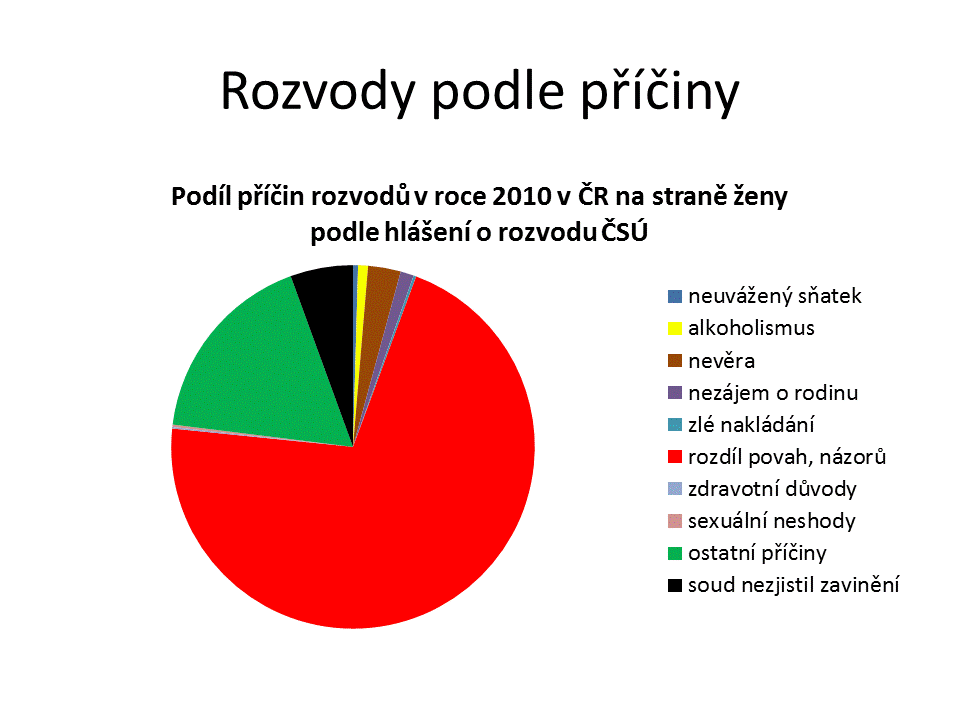 Divorces in the Czech Republic 2010 by cause of marriage breakdown on the part of female.